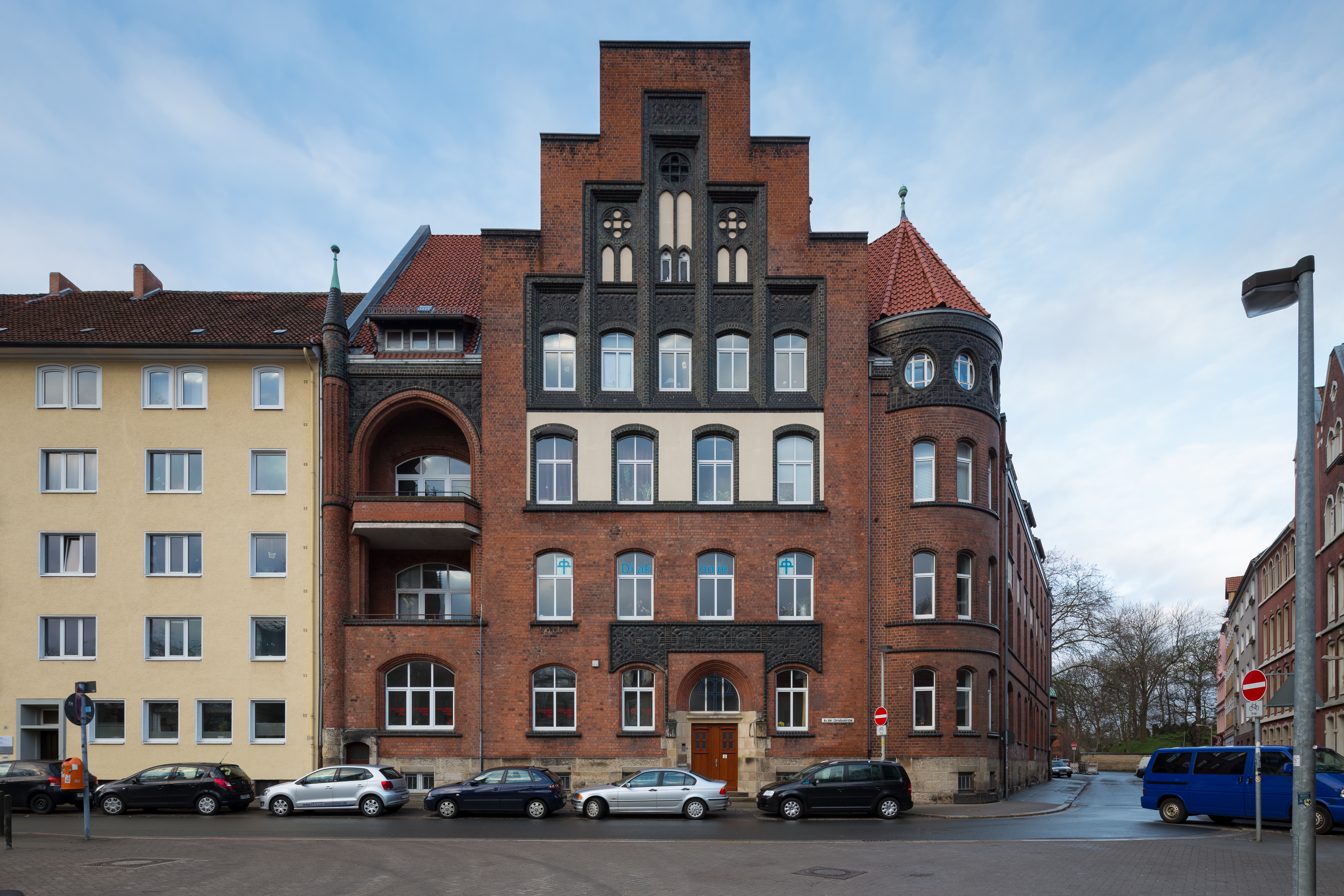 Rectory of Christuskirche church, located at An der Christuskirche no. 15 in Norddstadt quarter of Hannover, Germany.